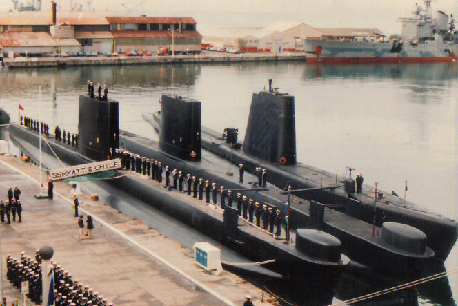 Oberon class submarines Hyatt and O'Brien docked together with the rented by the chilean navy submarine Simpson